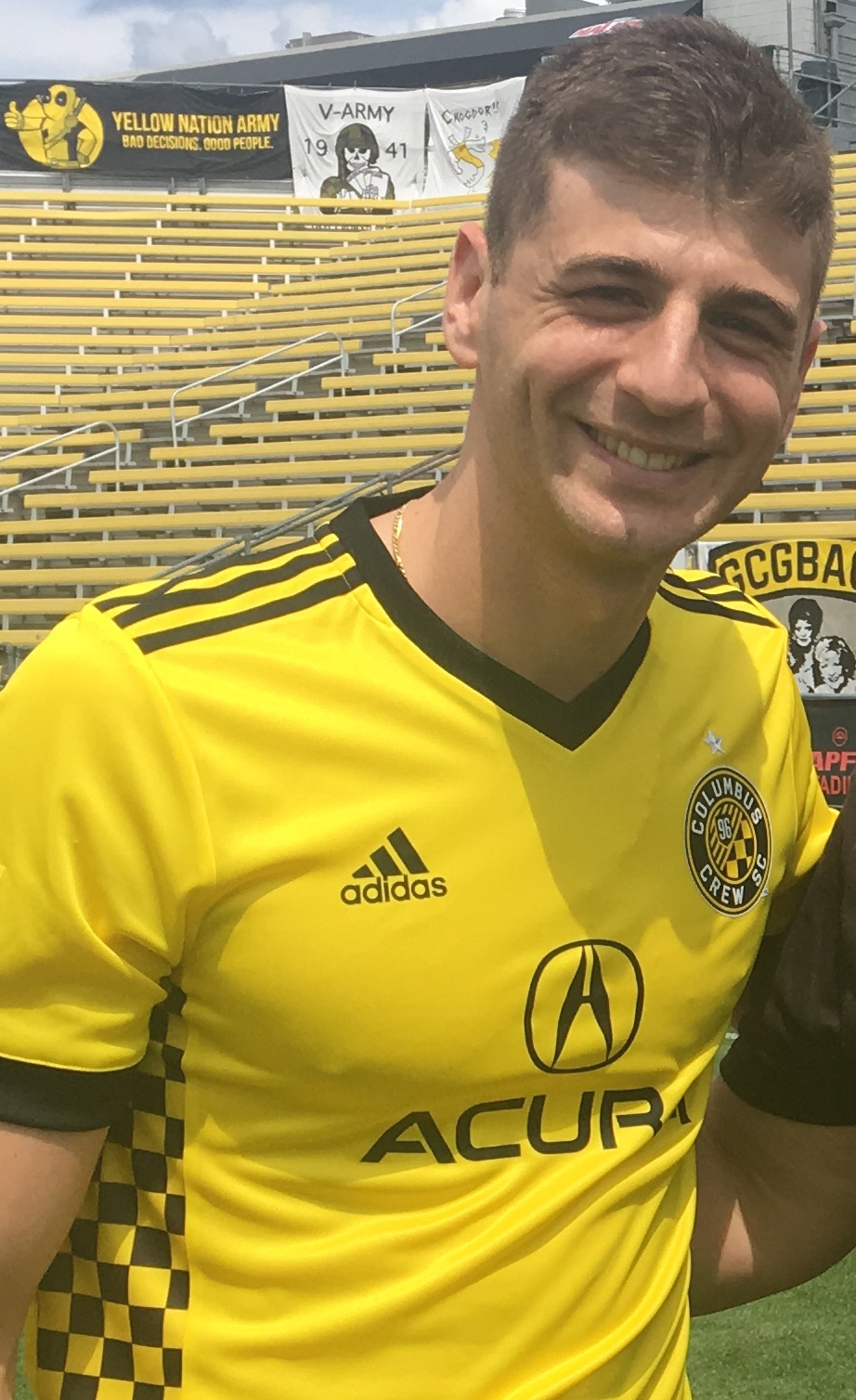 Picture of Gaston Sauro at a Columbus Crew SC Meet the Team event in 2017.